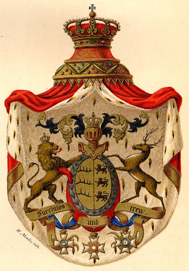 Coat of arms of kingdom of Württemberg